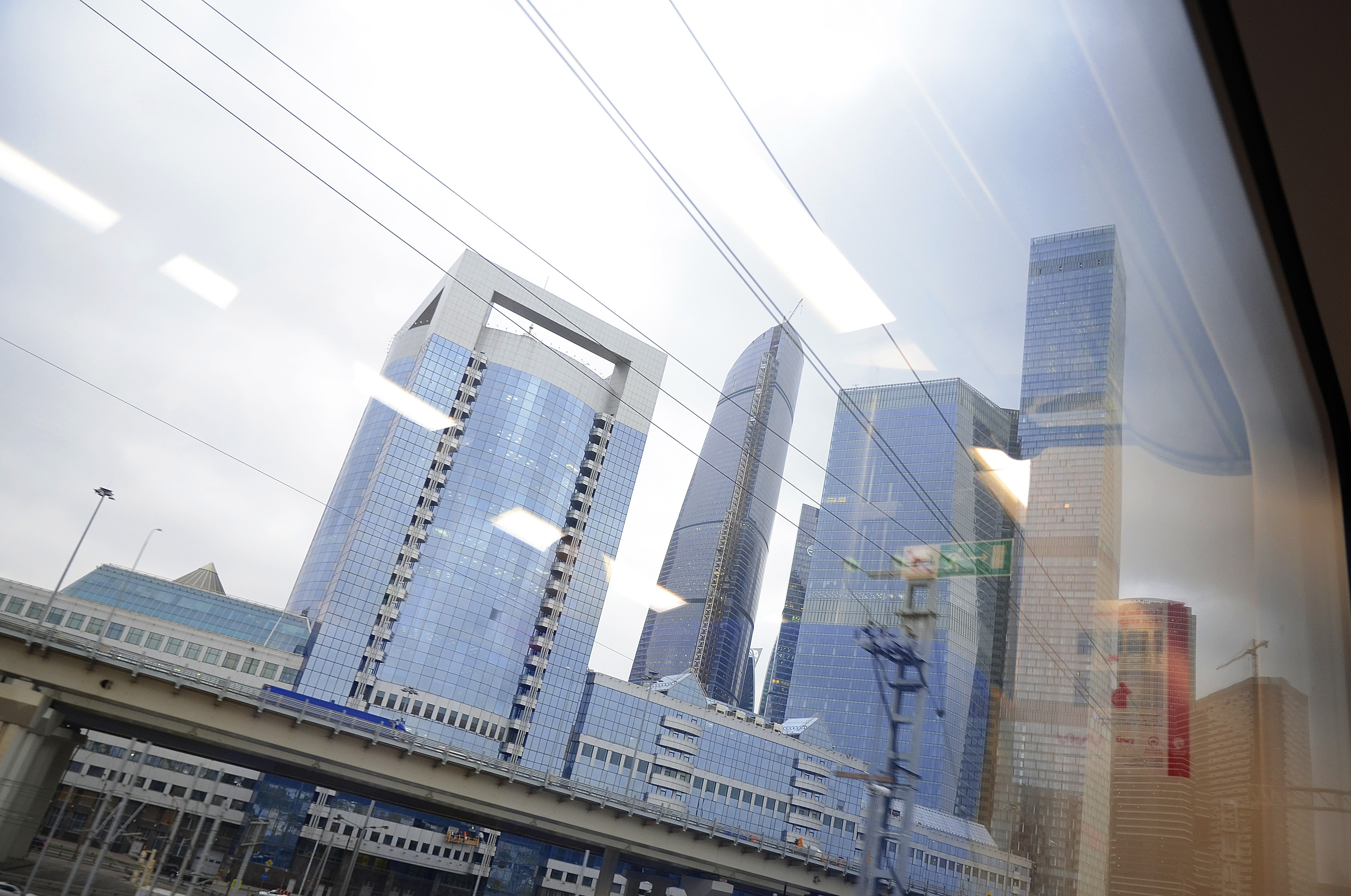 View of Moscow-City from MCC train